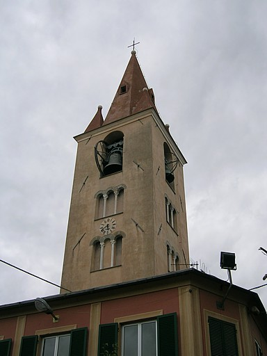 Bell tower of San Cipriano, municipality of Serra Riccò, province of Genoa, Italy